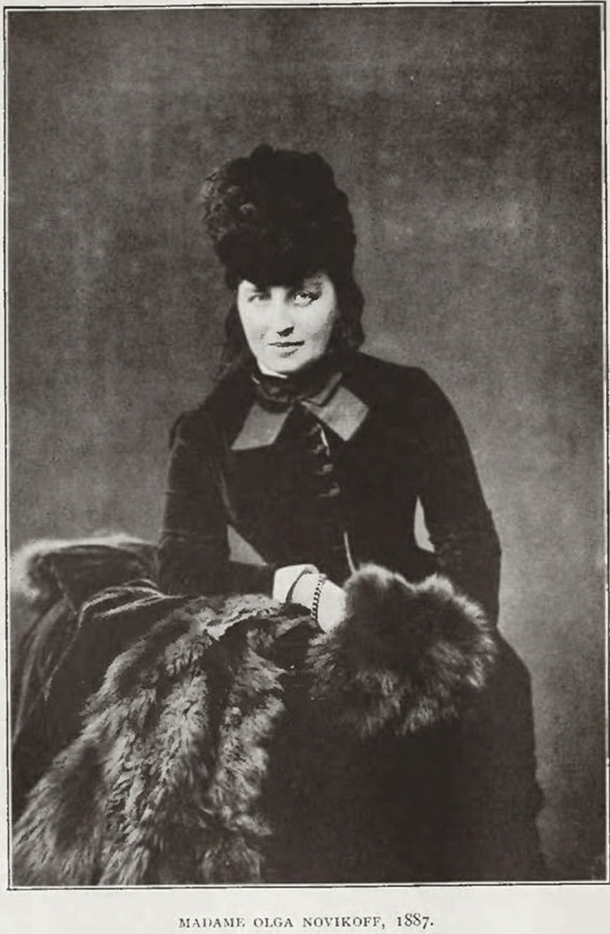 Olga Alekseyevna Novikova (1840—1925)